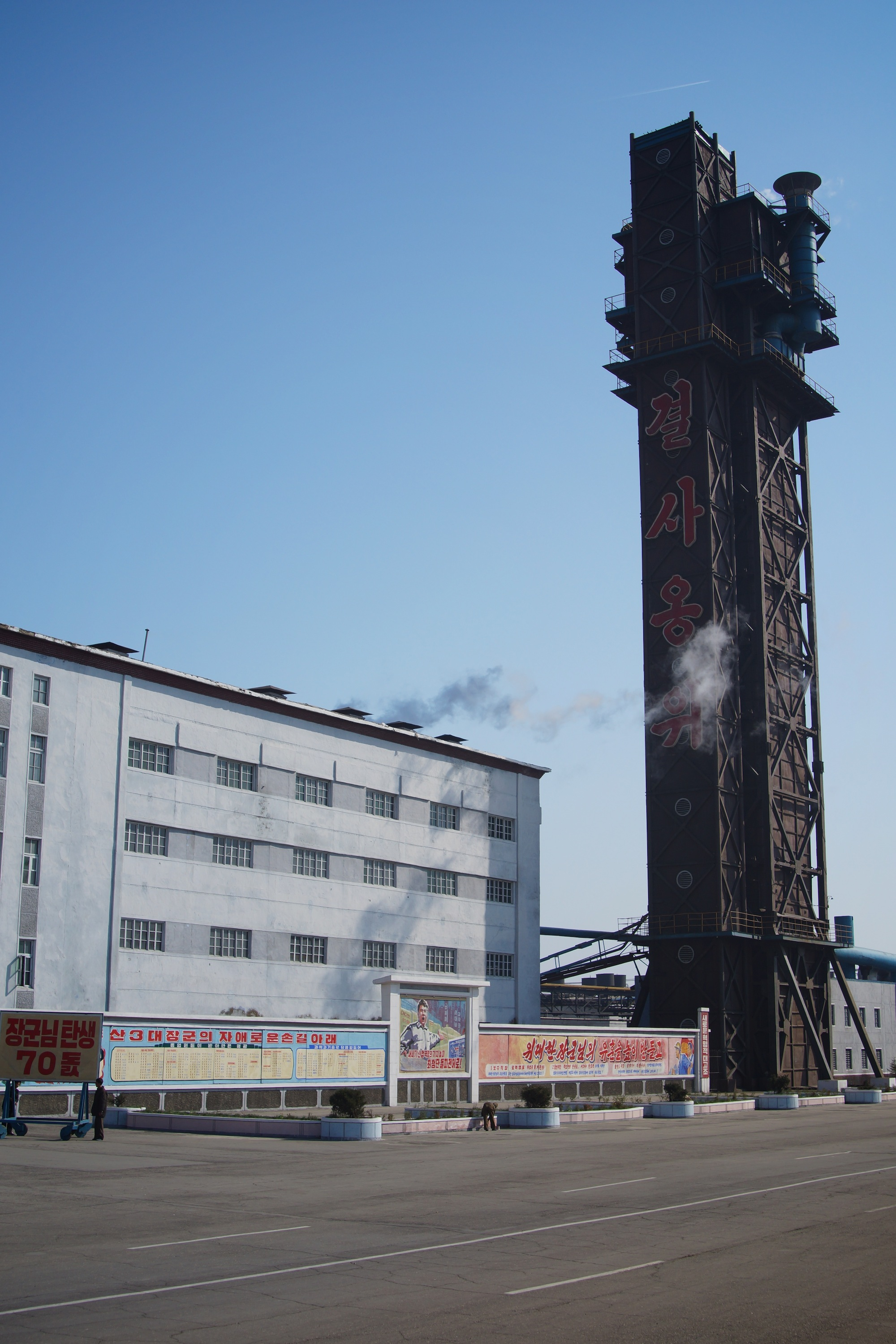 April 2012 trip to DPRK, North Korea for the 100th year birthday celebrations for Kim Il Sung - check out my North Korea blog at